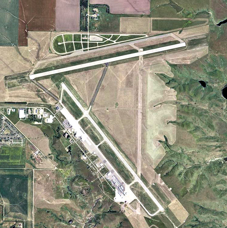 USGS digital orthophoto of Pierre Regional Airport in South Dakota